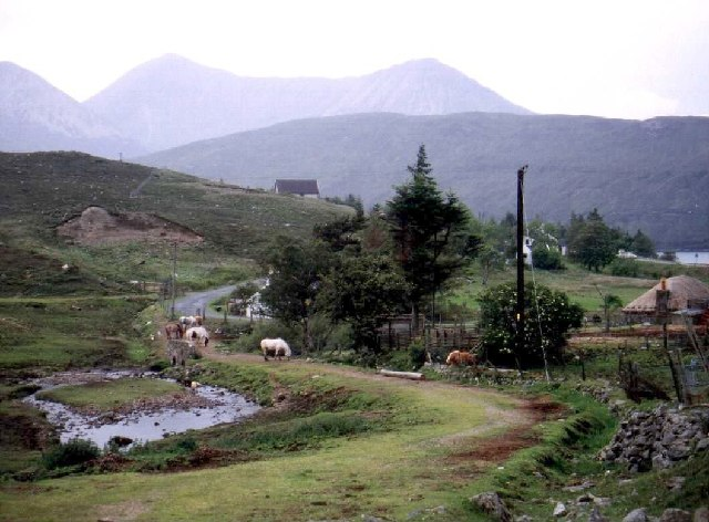 Luib, Skye. A hamlet at one end of the track to Strollamus which cuts a loop off the main road. I doubt if it saves time, or effort.